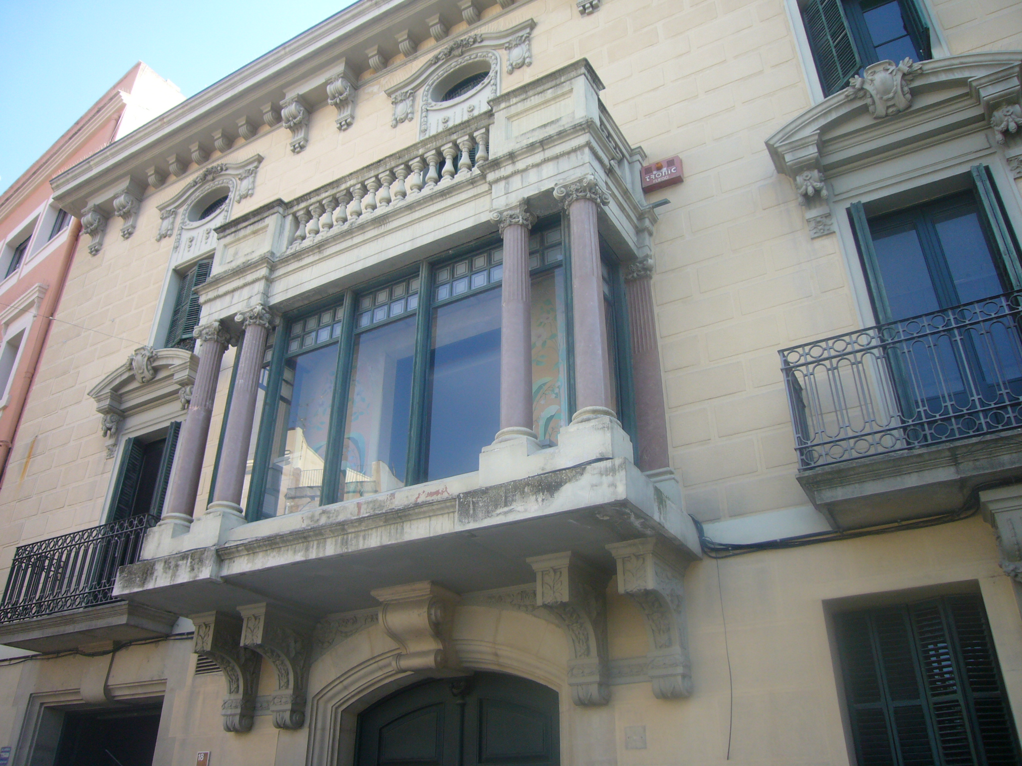 Casa Valls i Valls (Cal Maco)